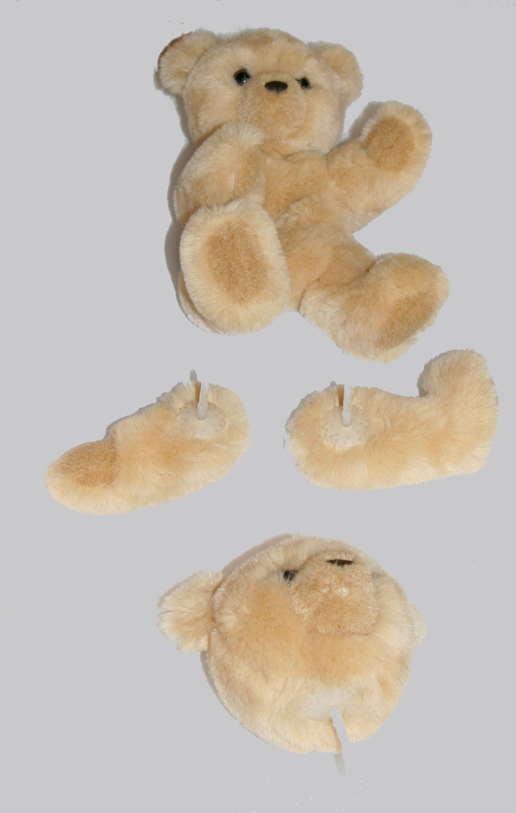 Photographed by myself Steiff Museum Giengen Germany